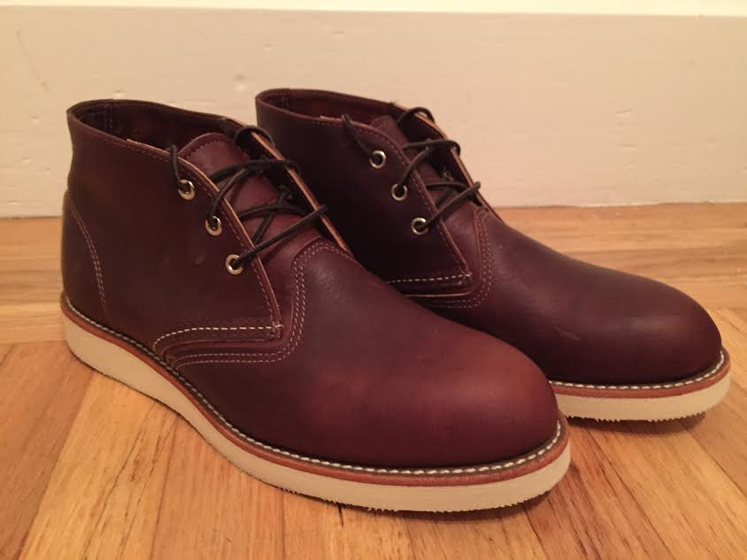 Red Wing chukka boots